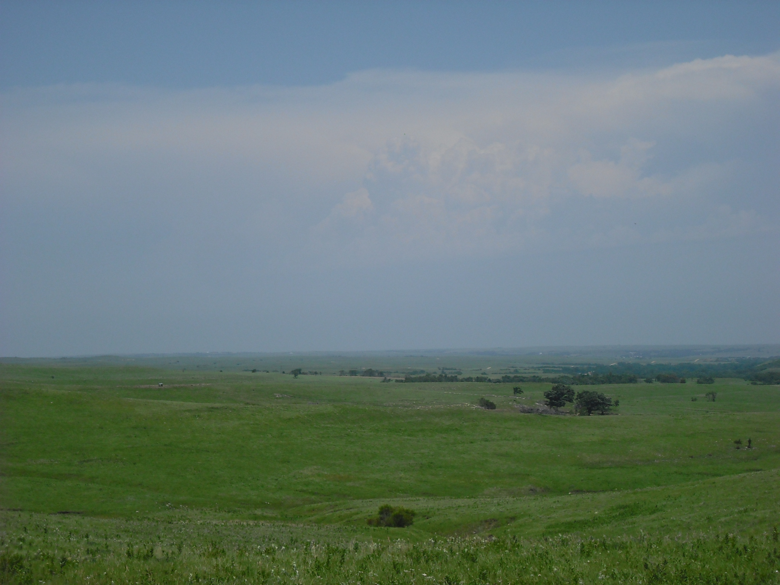 A view of the Flint Hills grasslands of Kansas. In Wabaunsee County along the Skyline-Mill Creek Scenic Tour.